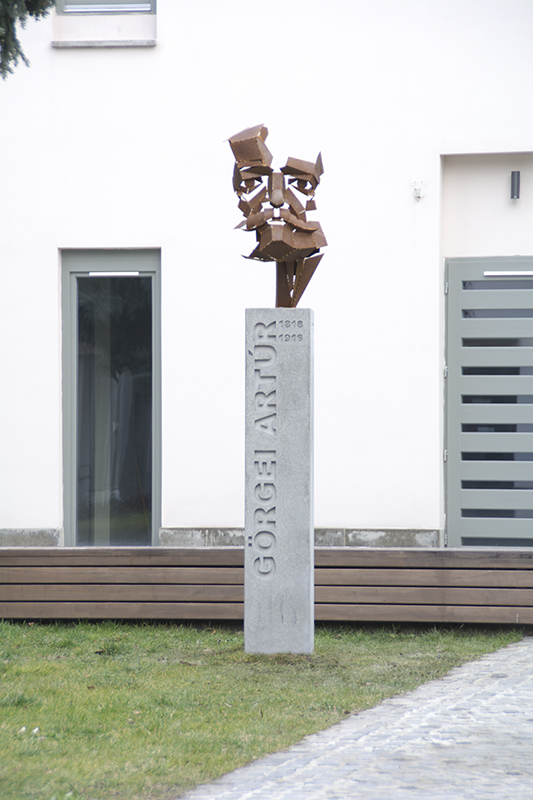 Artúr Görgei portrait, 2017, steel sheet, 96 cm. Sculptor: László Szlávics, Jr.